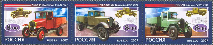 Russian trucks. Stamps of Russia, 2007.